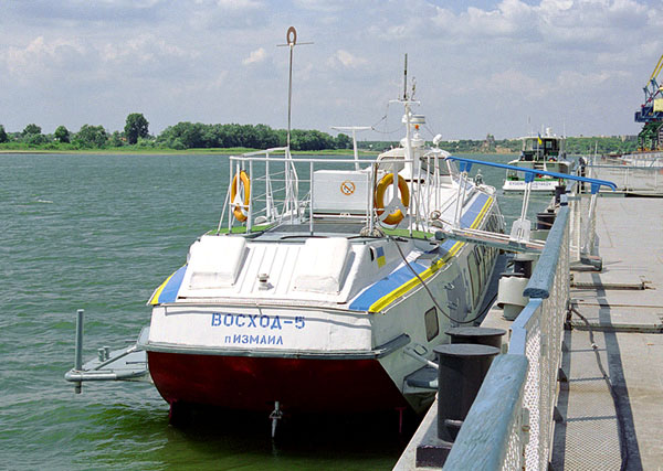 "VOSKHOD-5" in Izmail (2003). Project 352, type "Voskhod"